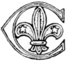 The Cornwell Scout Badge may be awarded to members of many Commonwealth Scout associations for "pre-eminently high character and devotion to duty, together with great courage and endurance."